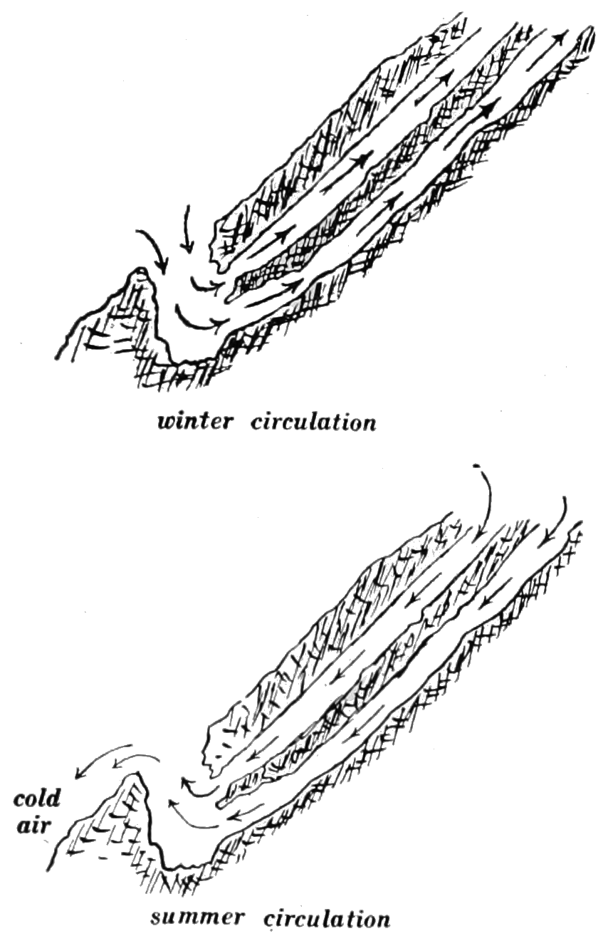 Seasonal air currents explaining the ice phenomena